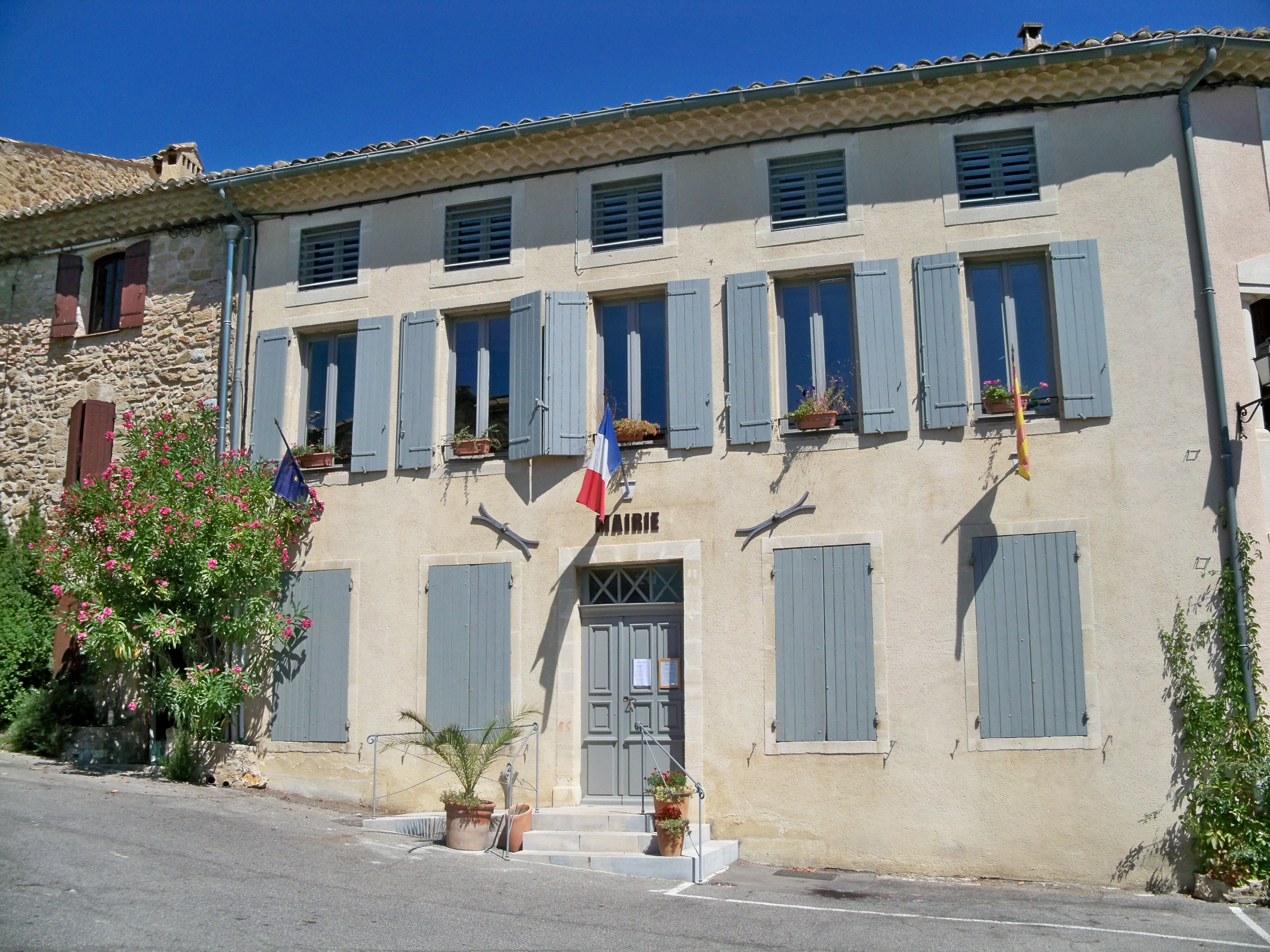 Town hall of Puyméras, Vaucluse, France